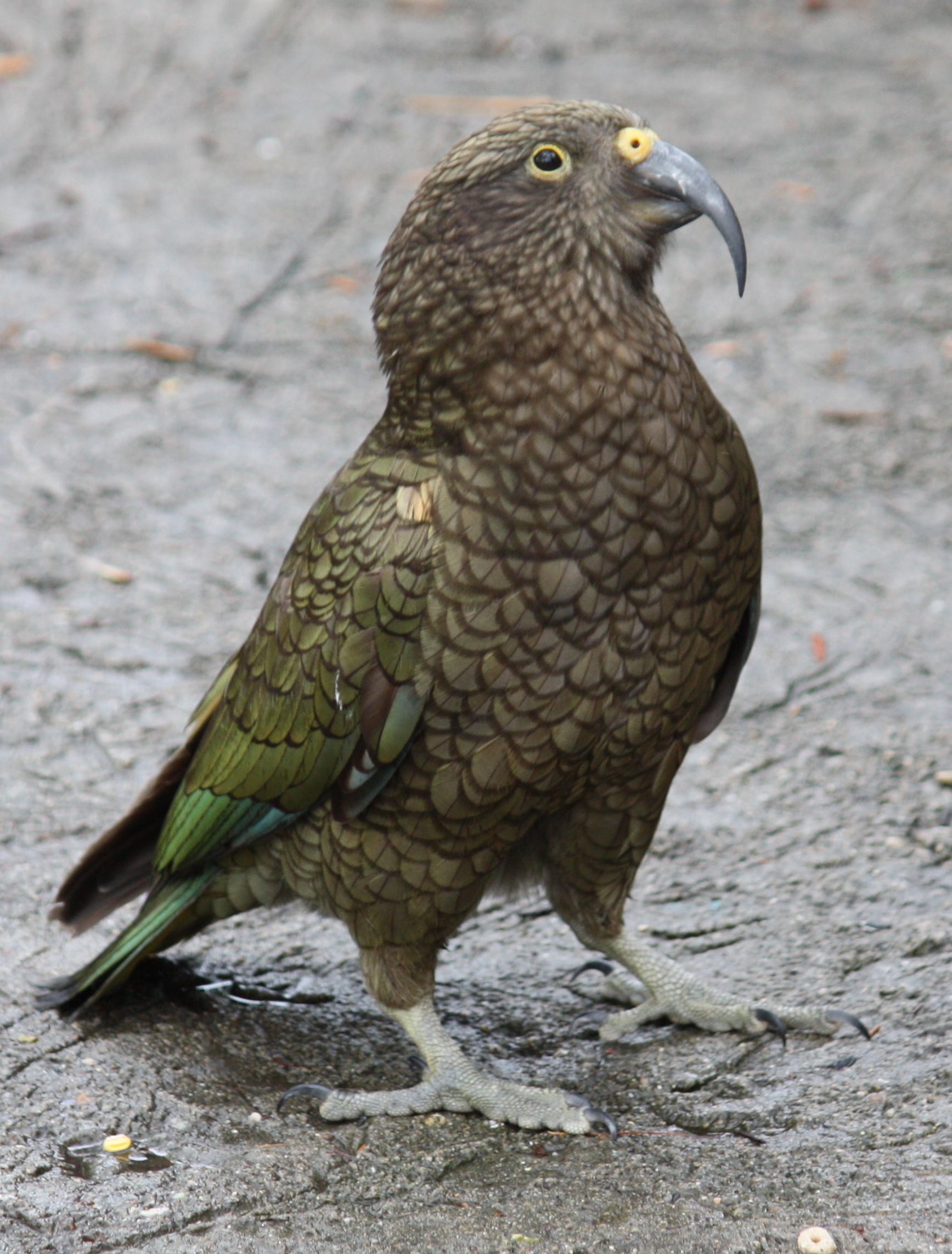 Kea Nestor notabilis at the Cincinnati Zoo